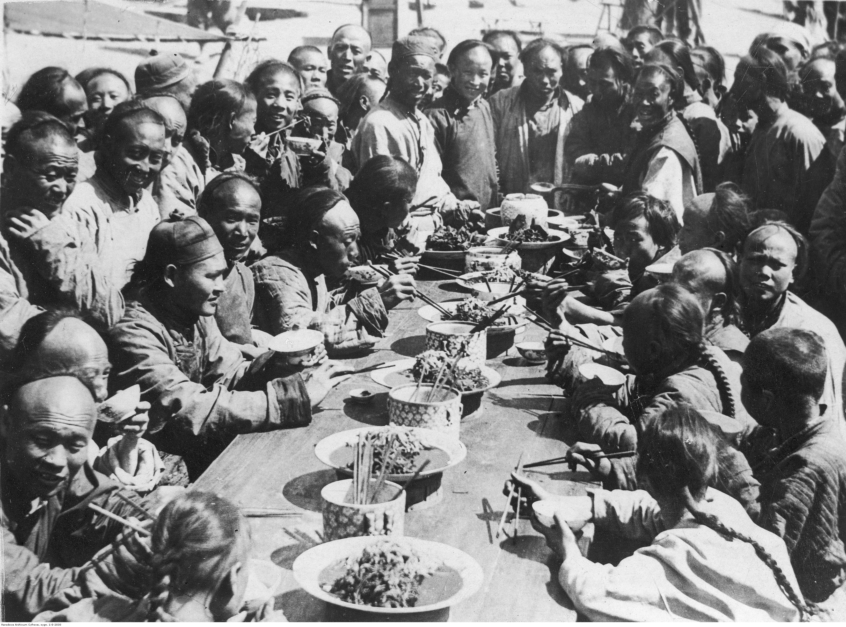 Chinese Street Food in Beijing (1926-1927)